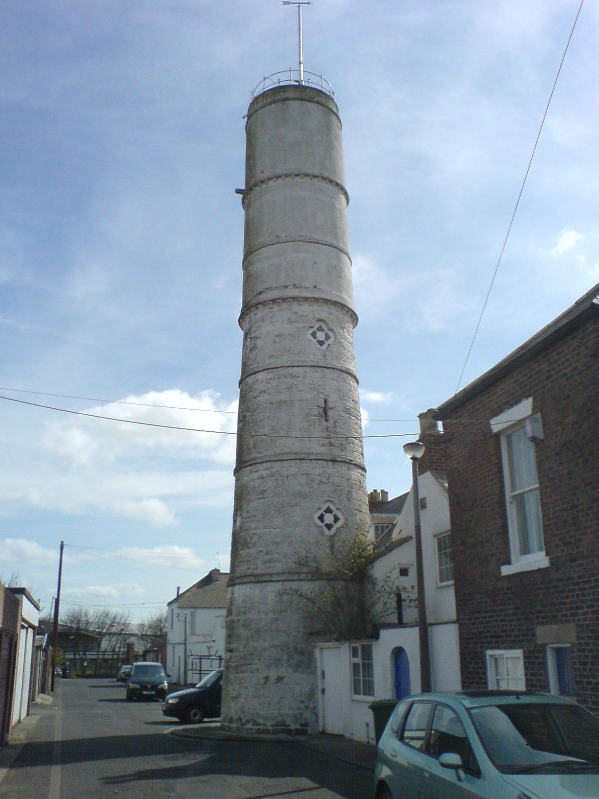 The "High Light" lighthouse in Blyth, Northumberland.